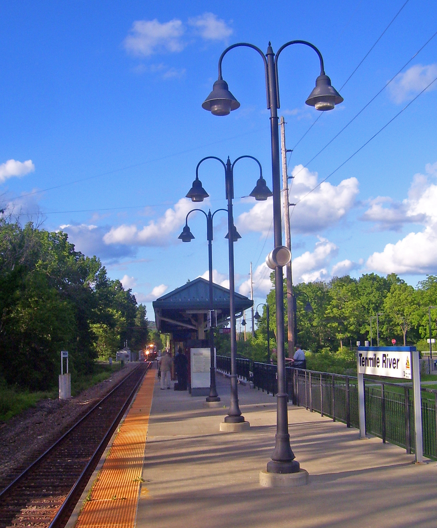 Tenmile River station on Metro-North Harlem Line in Amenia, NY, USA